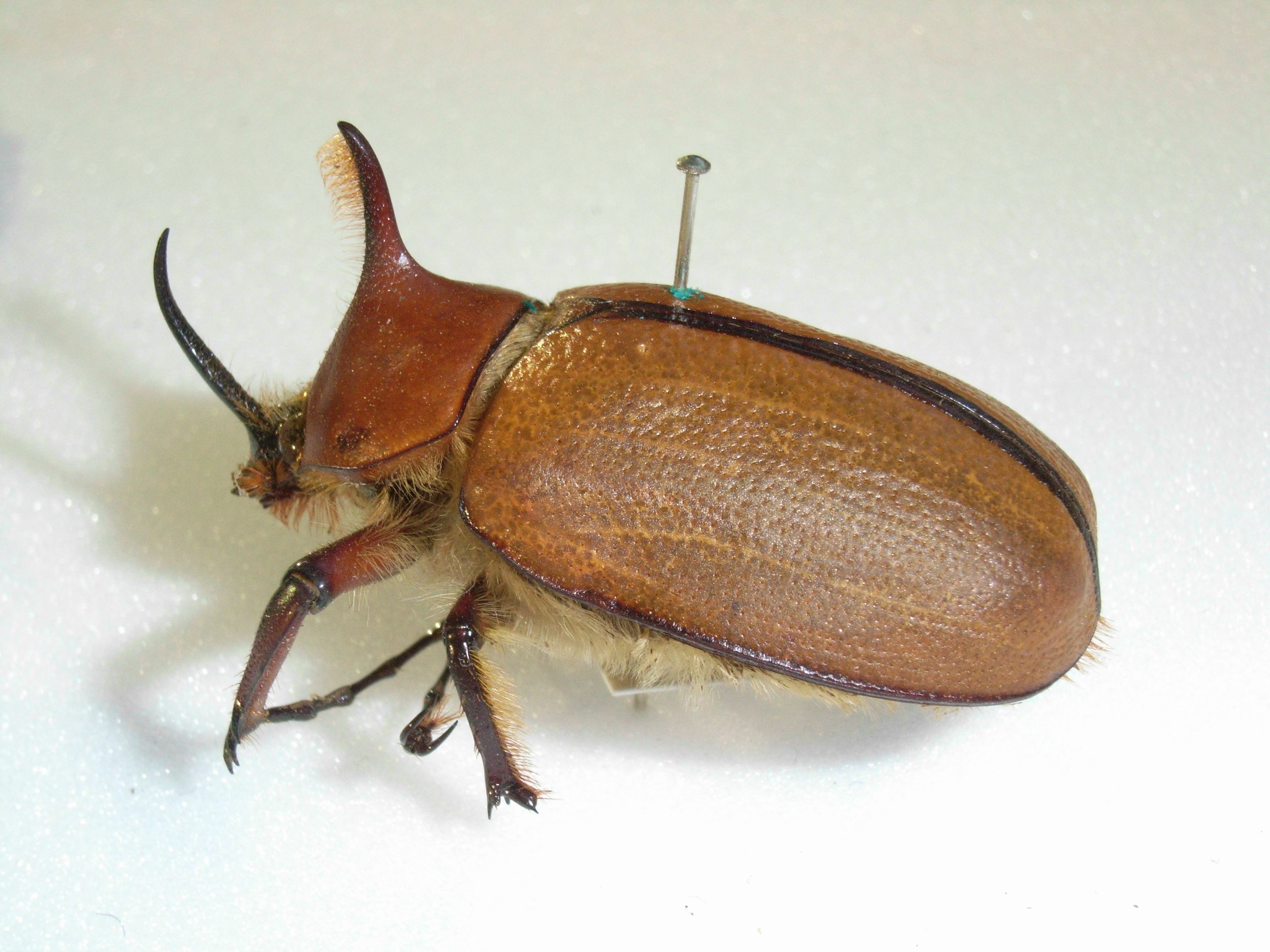 Golofa porteri Peru